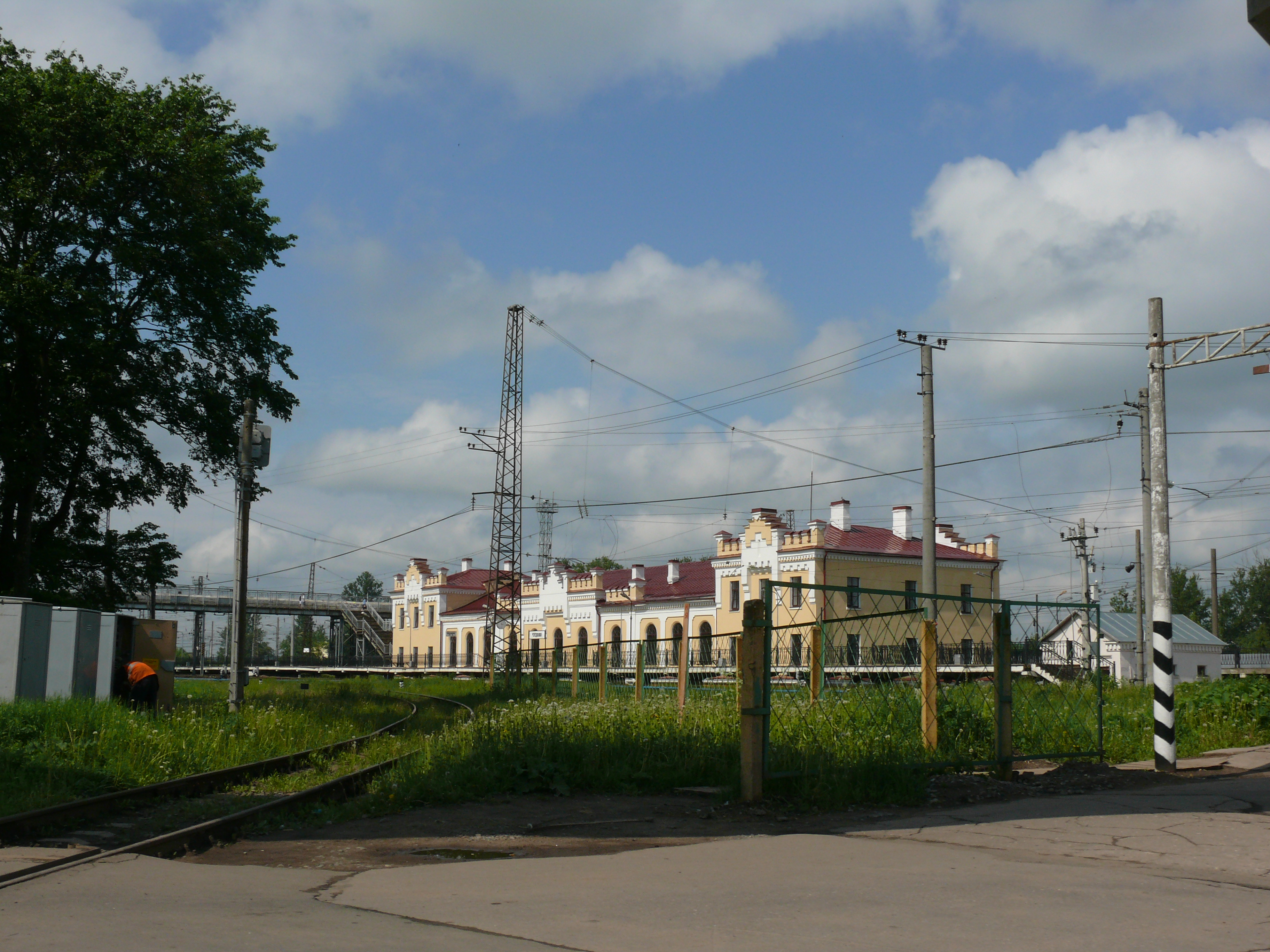 Railwaystation in Chudovo, Novgorod oblast, Russia